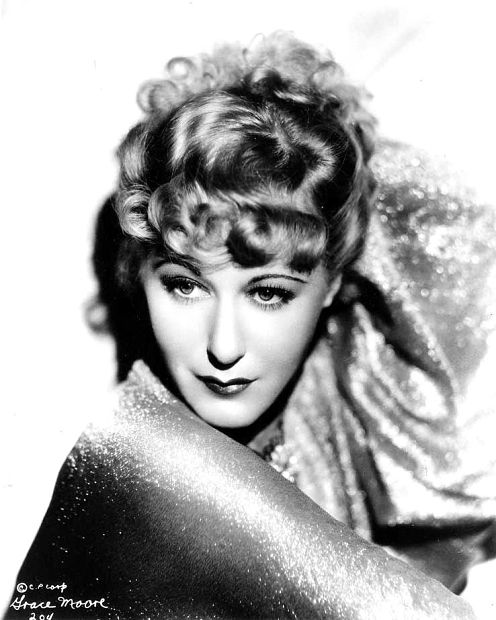 Promotional photograph of actor Grace Moore